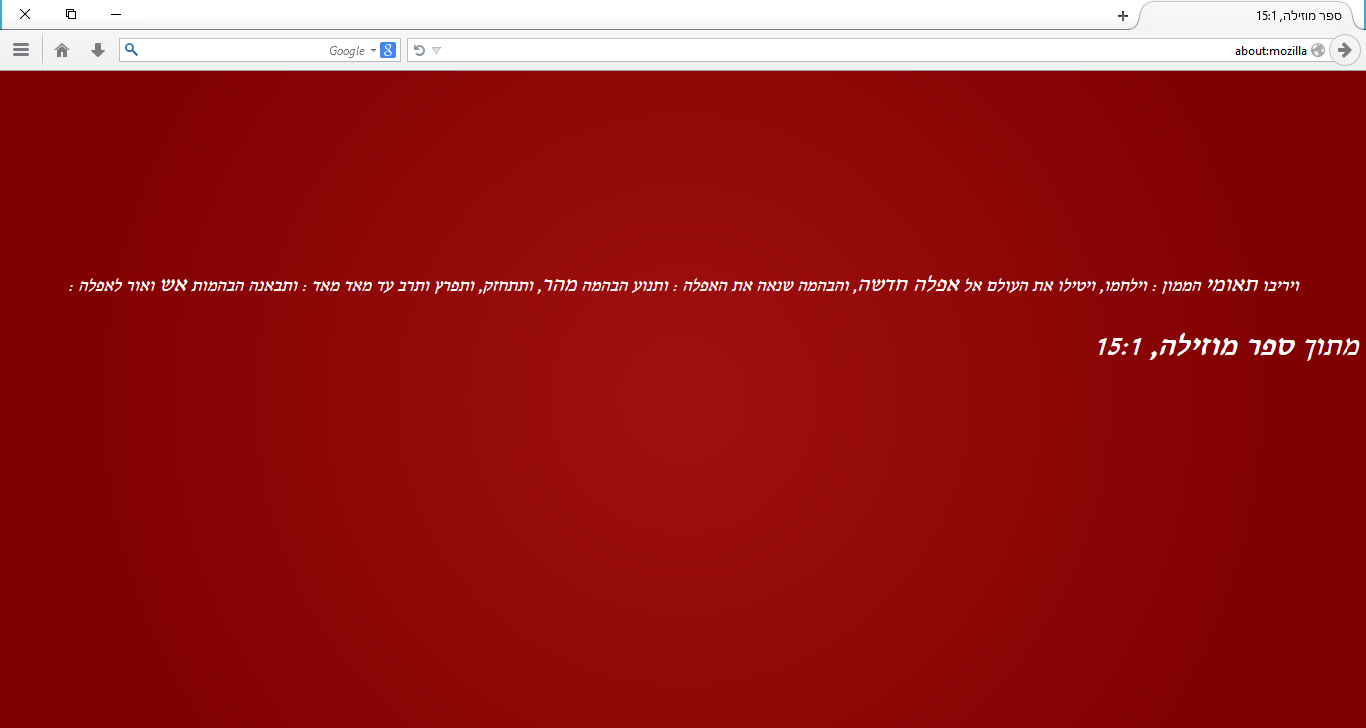 The Book of Mozilla 15:1 in Mozilla Firefox 29.0.1 in Hebrew